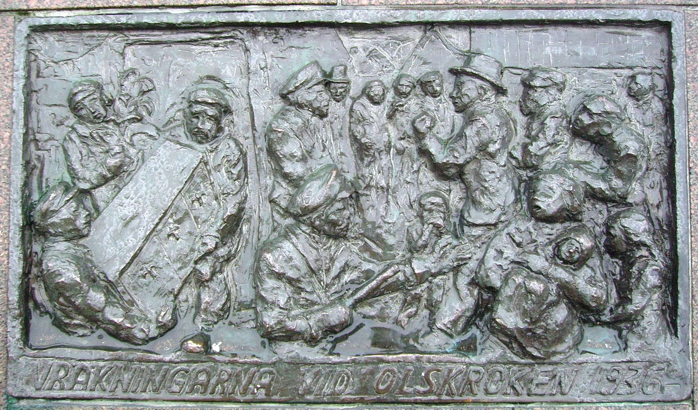 Picture of riots in Olskroken in Göteborg 1936